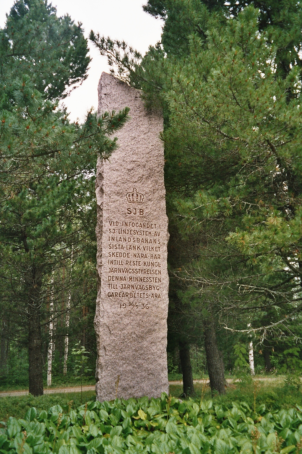 Memorial at railway station Kåbdalis of Inlandsbanan. Translated text: SJB. At the insertion into the SJ line system of Inlandsbanan's last link, which happened nearby, the Royal Railway Agency raised this memorial in honour of the railway workers. 26/9 1936